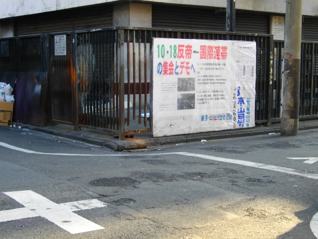 San'ya-Tatekanban(Ultra-left propaganda billboard at San'ya)